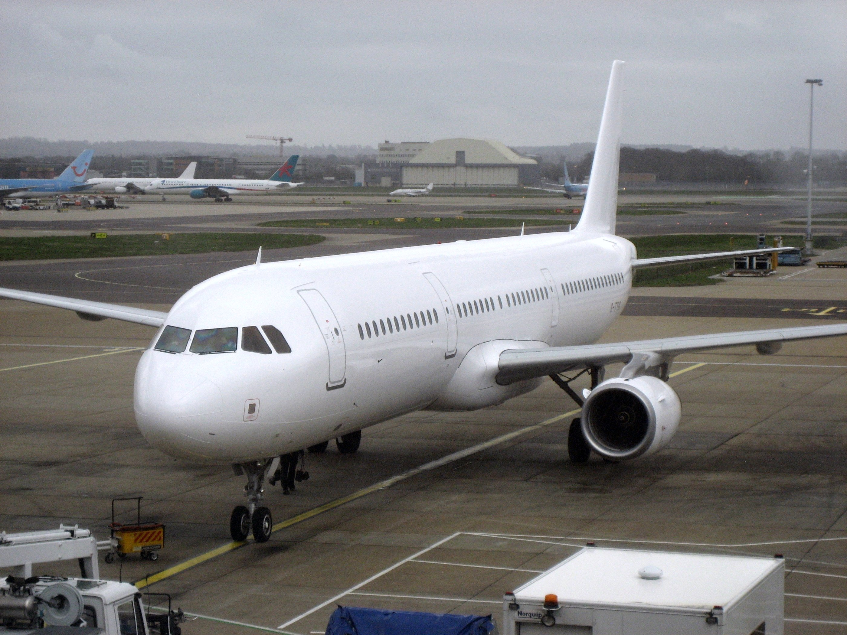 G-TTIG in all-white livery at London Gatwick Airport, seen on GB Airways' last day of operation.